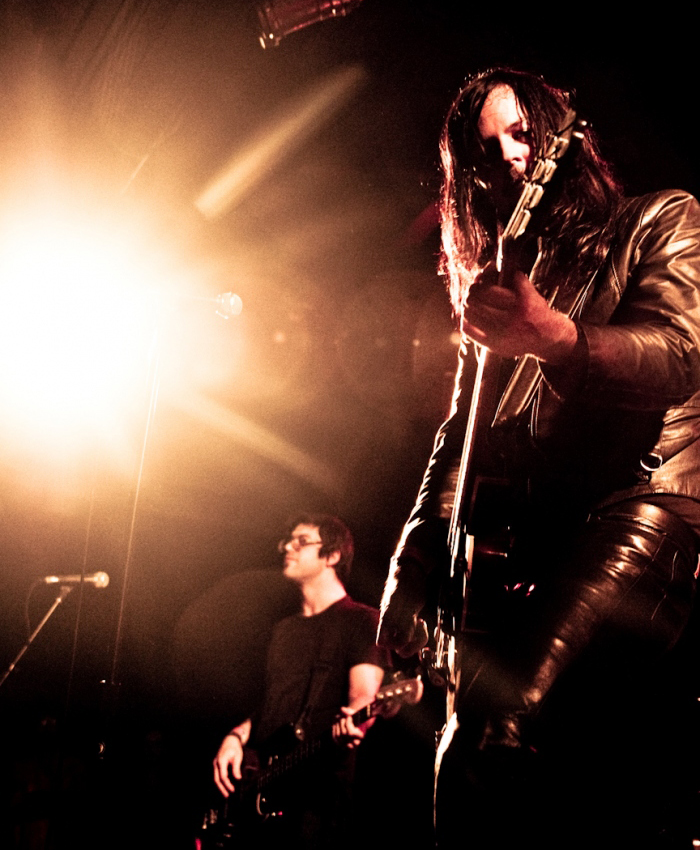 Southern Backtones performing live at Fitzgerald's in Houston, Texas. Other information Given over to artist to use as they see fit. Preciously posted online, and provided directly by artist.